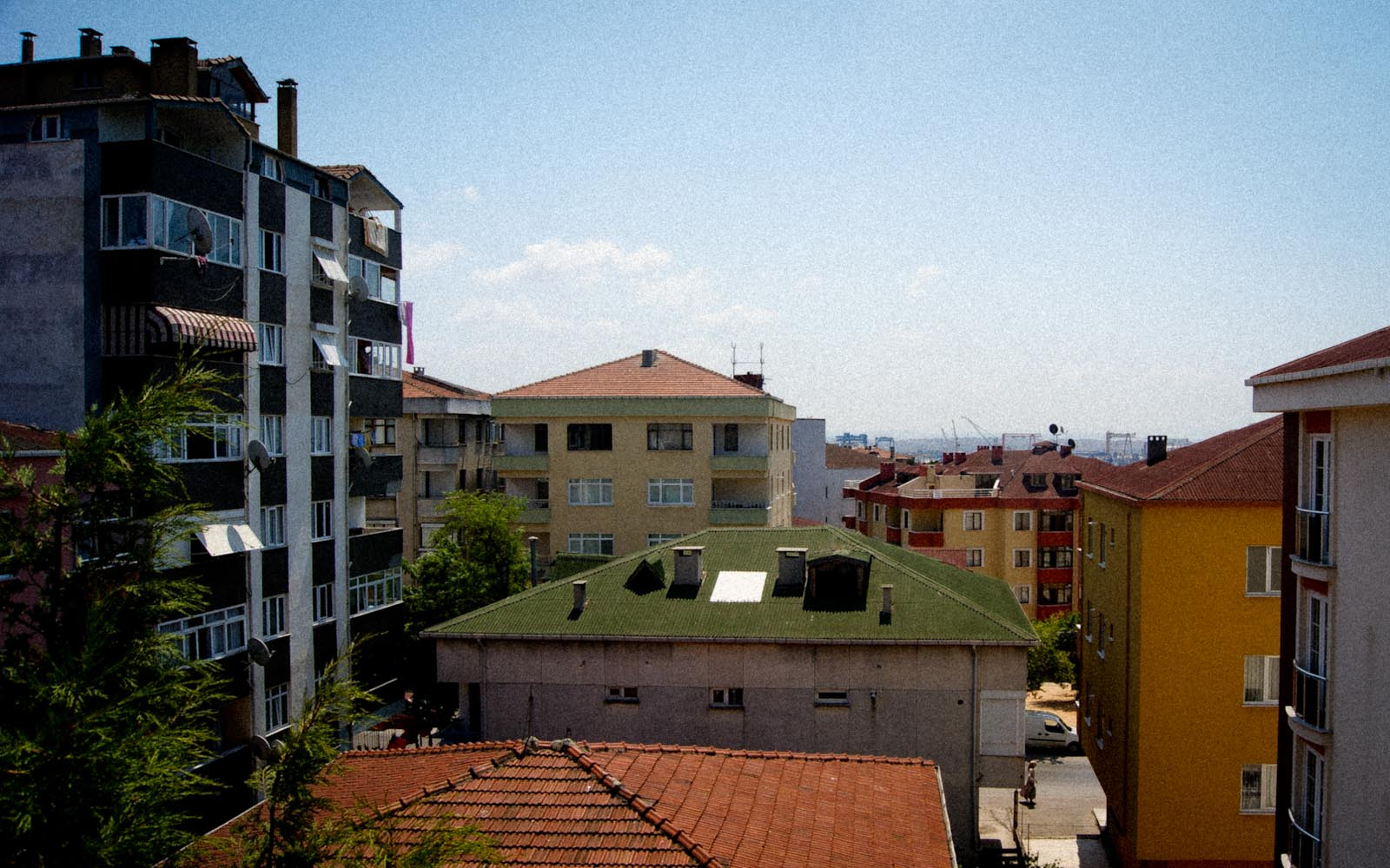 Güzelyali in Pendik (Istanbul)